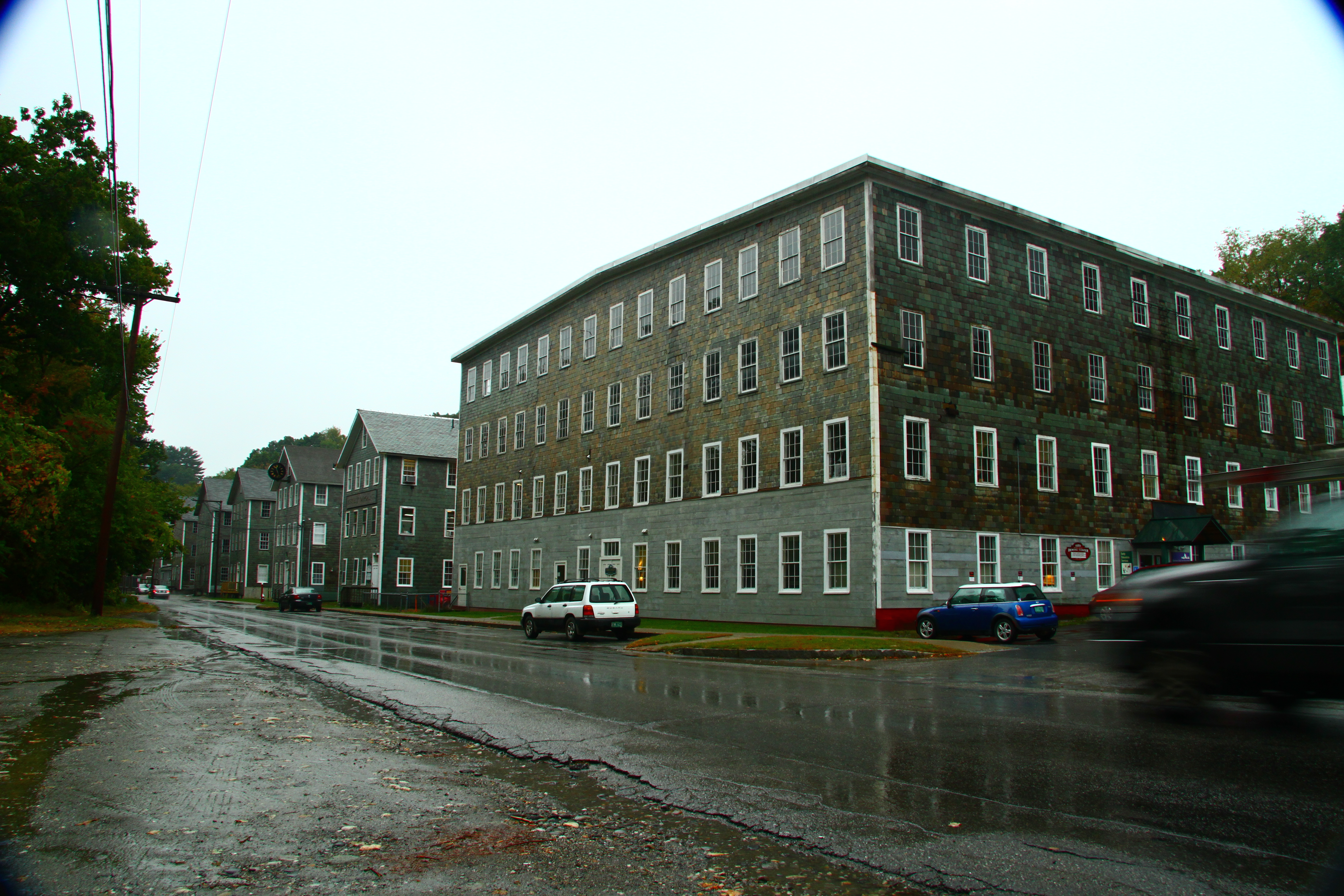 Estey Organ Company Factory